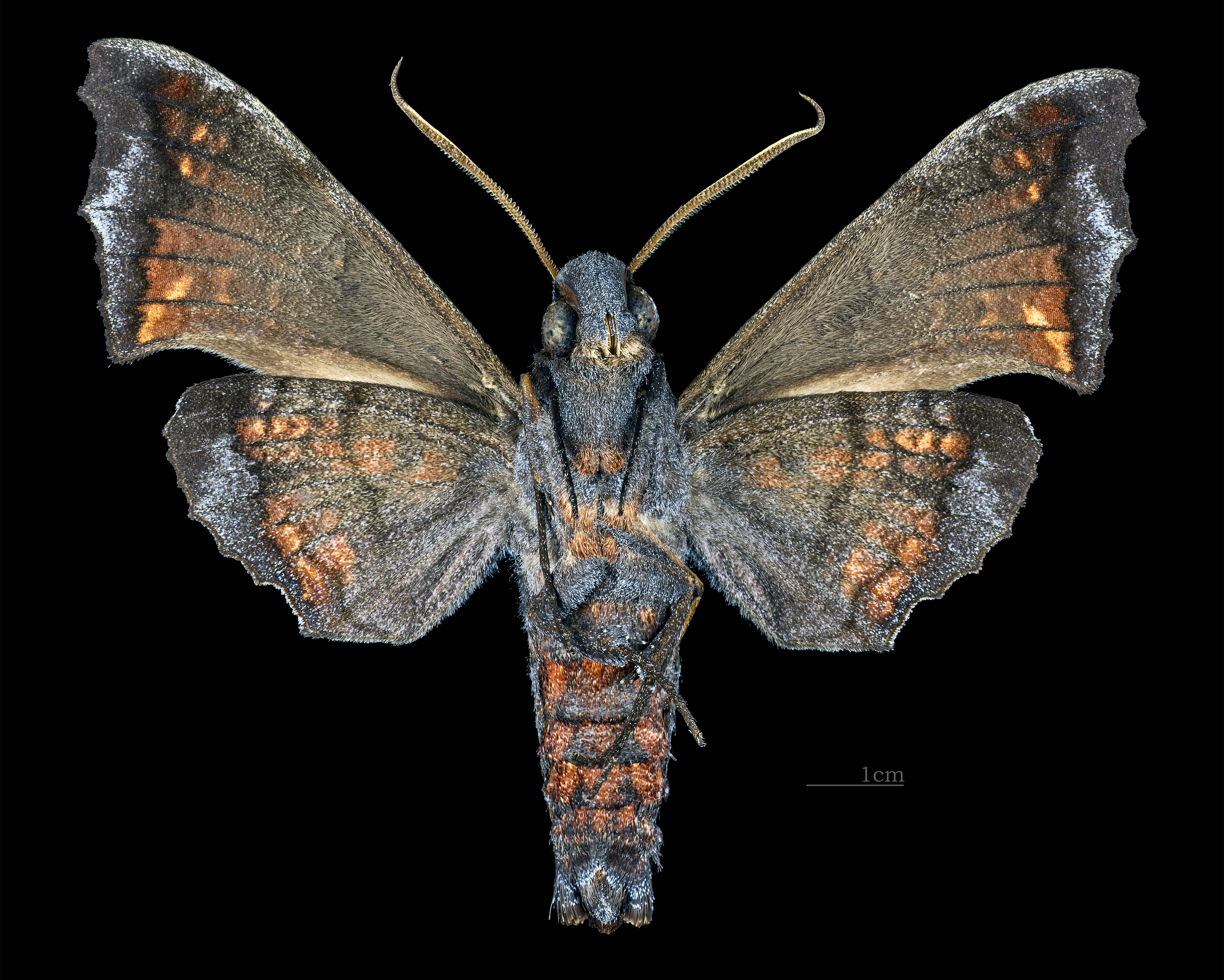 Nyceryx magna - △ Ventral side Collection of the Mathematician Laurent Schwartz